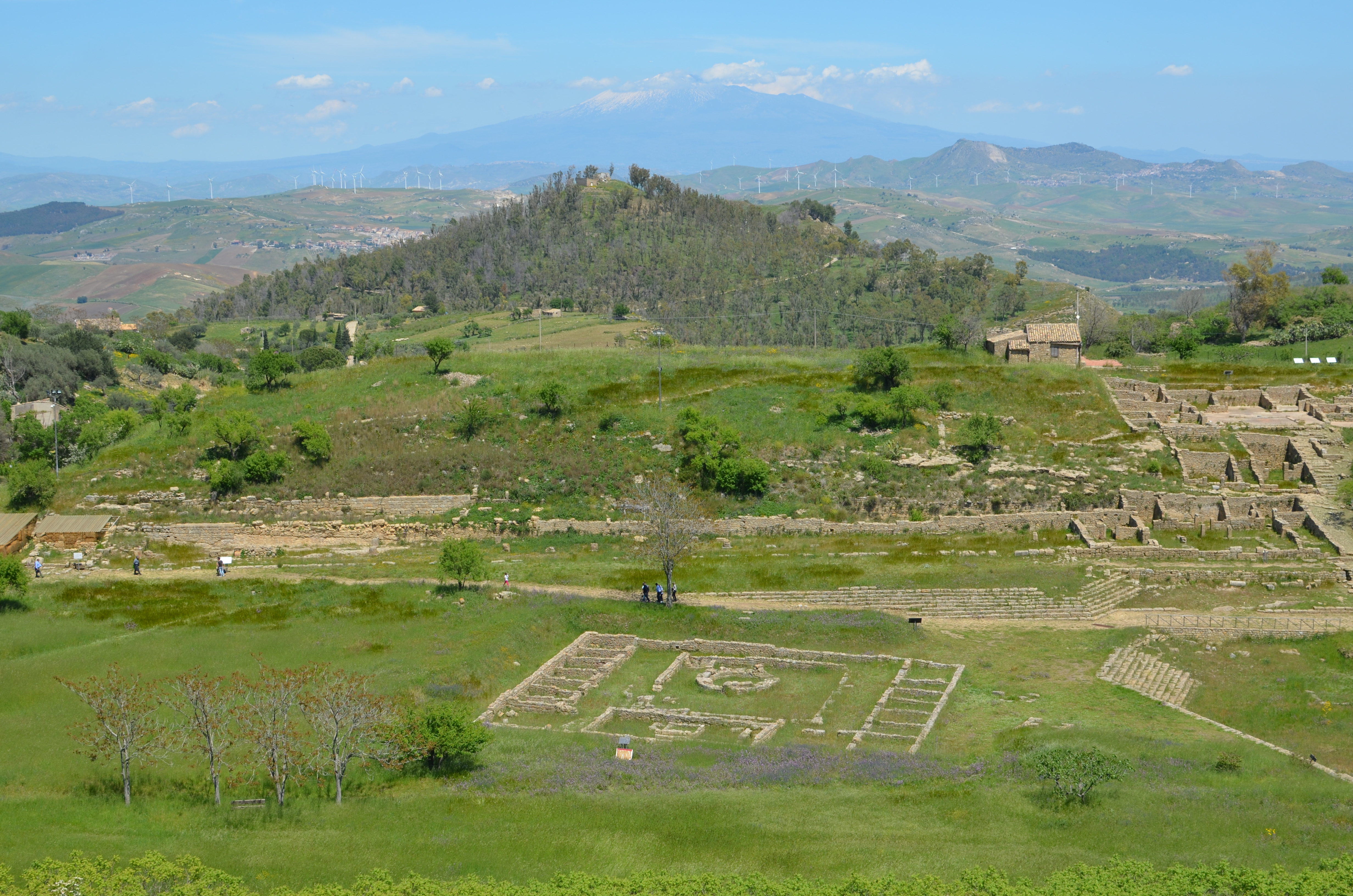 A view of Morgantina's Hellenistic agora. In the foreground the Macellum dating from the Roman period can be seen. In the background the Cittadella hilltop is visible, which was the location of Morgantina's Iron Age settlement. Mount Etna is seen in the far distance.